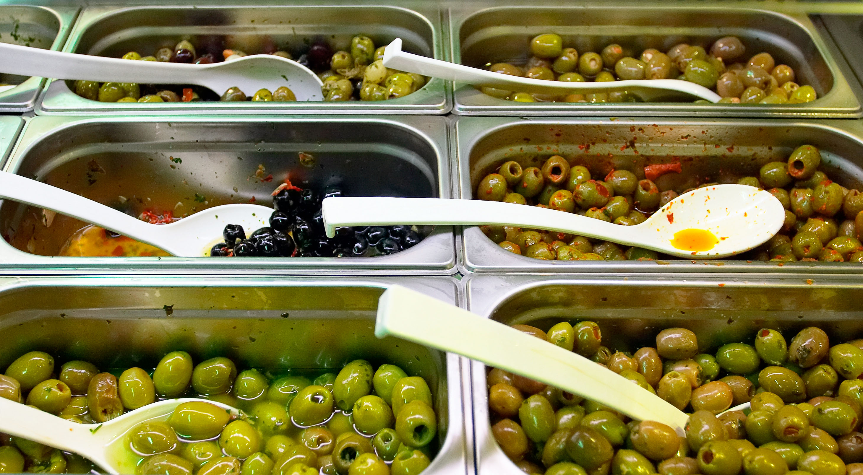 Black and green marinated olives